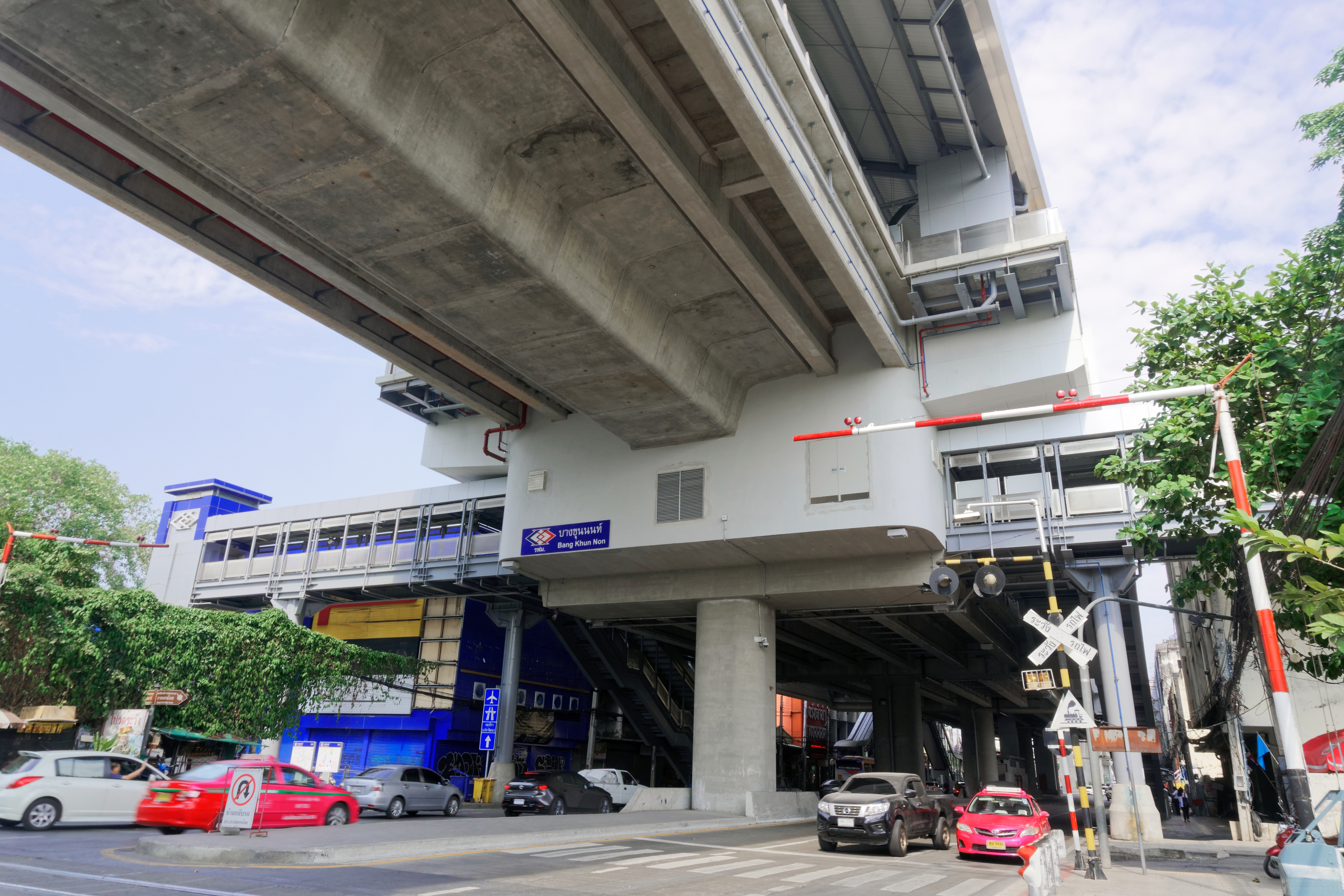 MRT Bang Khun Non – Station with a street-level train crosssing arm